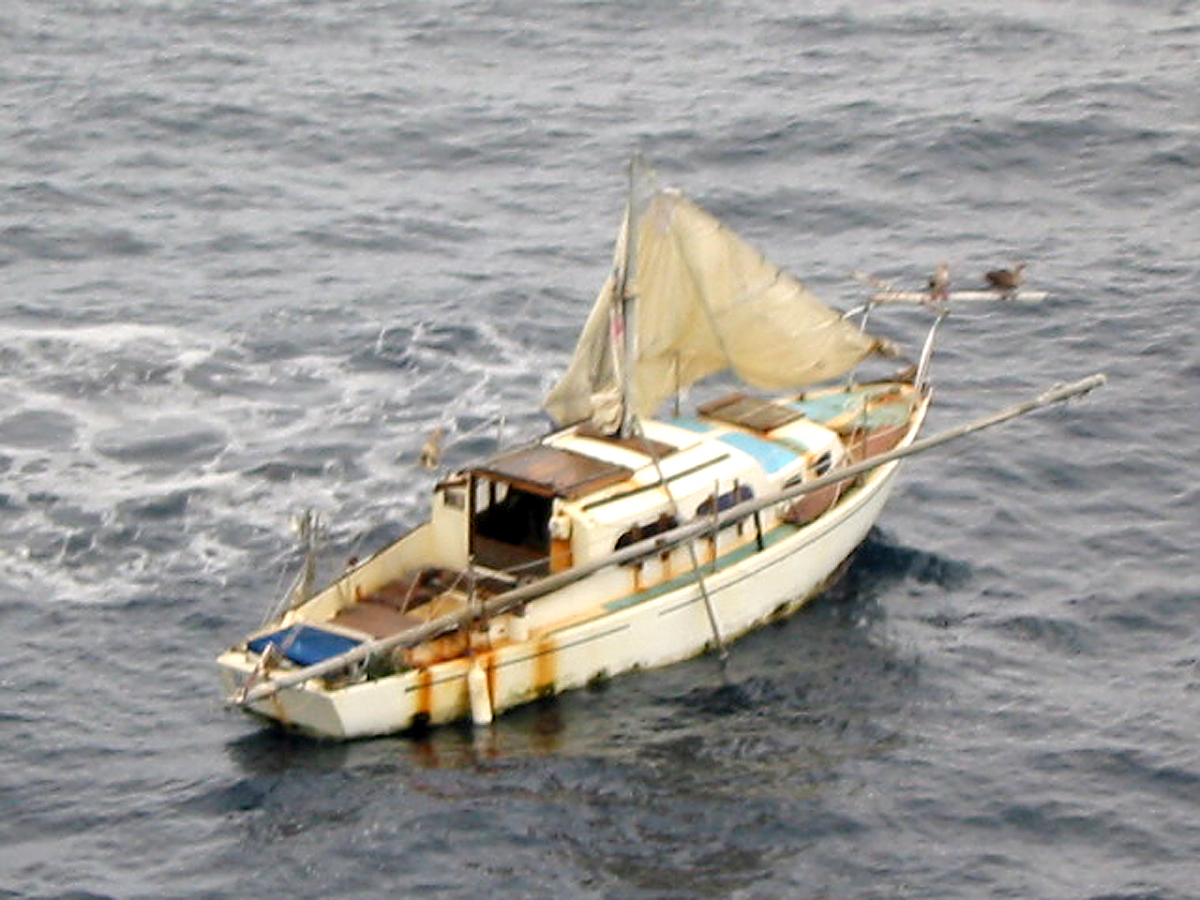 At Sea off the coast of Costa Rica (Sep. 17, 2002) – The battered and broken sailboat belonging to 62-year-old Richard Van Pham, who was spotted adrift in his small sailboat by military aircraft conducting drug interdiction operations in the region. Van Pham was rescued by the U.S. Navy frigate USS McClusky (DDG 41), after being adrift at sea for 3 1/2 months. Van Pham set out for a short trip between Long Beach, Calif., and Catalina Island, when high winds damaged his mast, disabling his boat. U.S. Navy Photo (RELEASED)